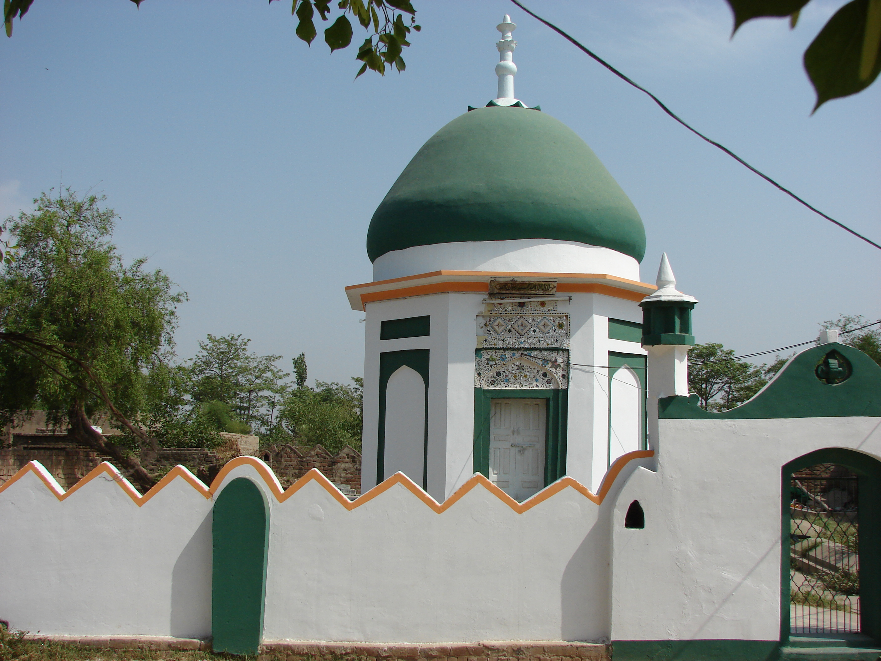 Shrine of Mian Muhammad Panah in Busal, Pakistan